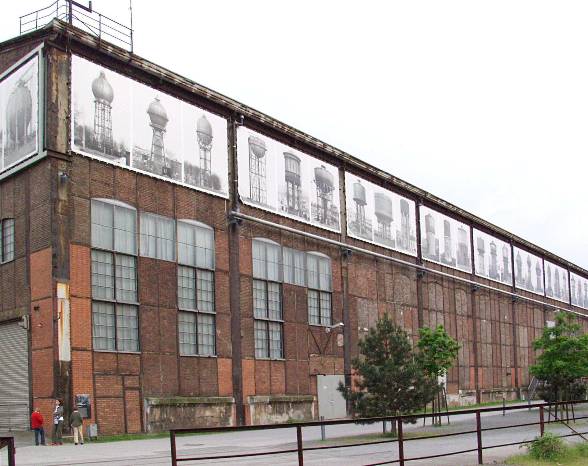 "Kraftzentrale" at Landschaftspark Duisburg-Nord, Duisburg, Germany This is a photograph of an architectural monument.